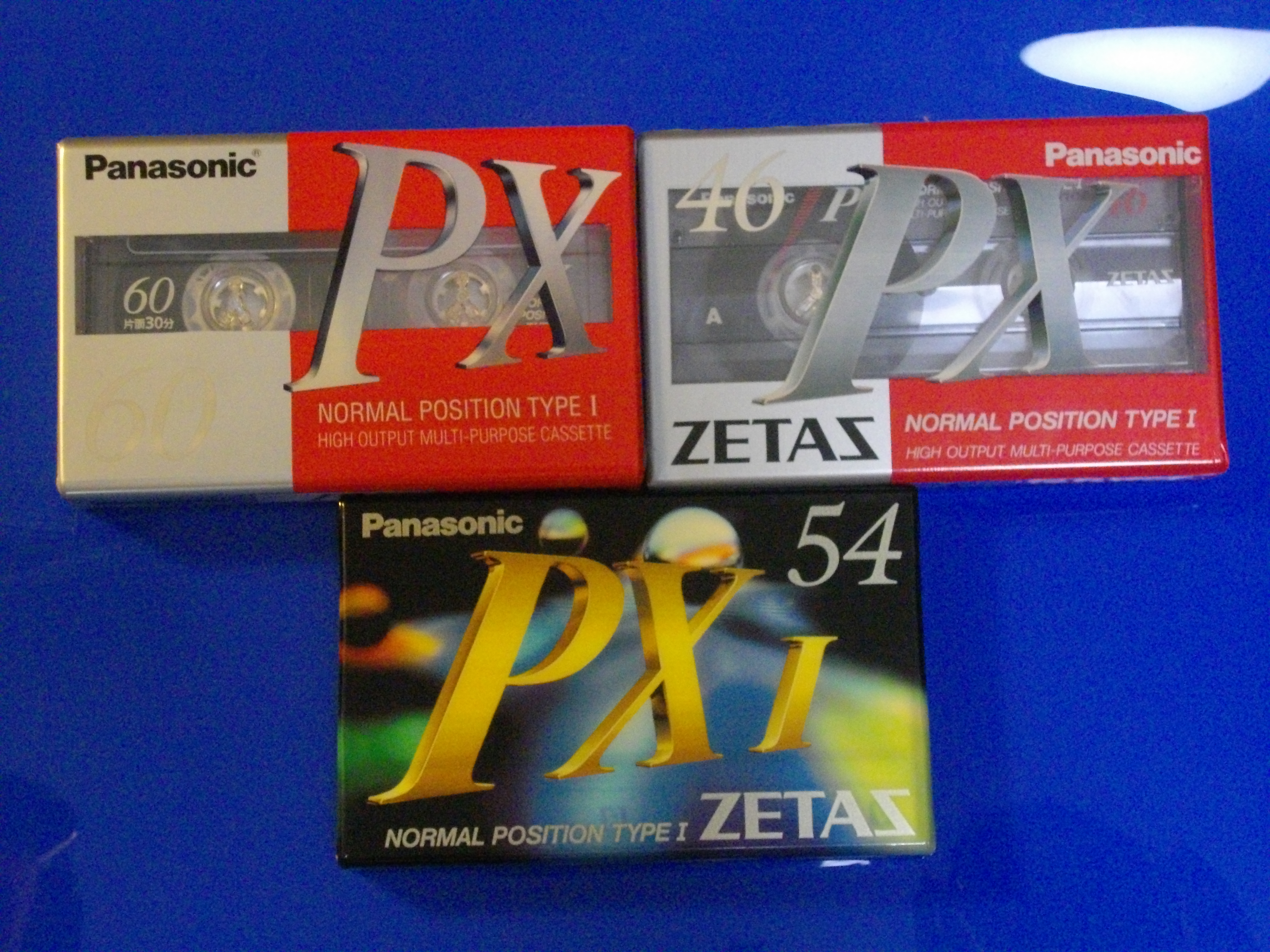 Panasonic PX cassettes of various vintage (early 1990s or perhaps even late 80s). The top left cassette was, quite obviously, OEM-ed by Maxell (or of Maxell parts), and the top right is an OEM-ed TDK D.